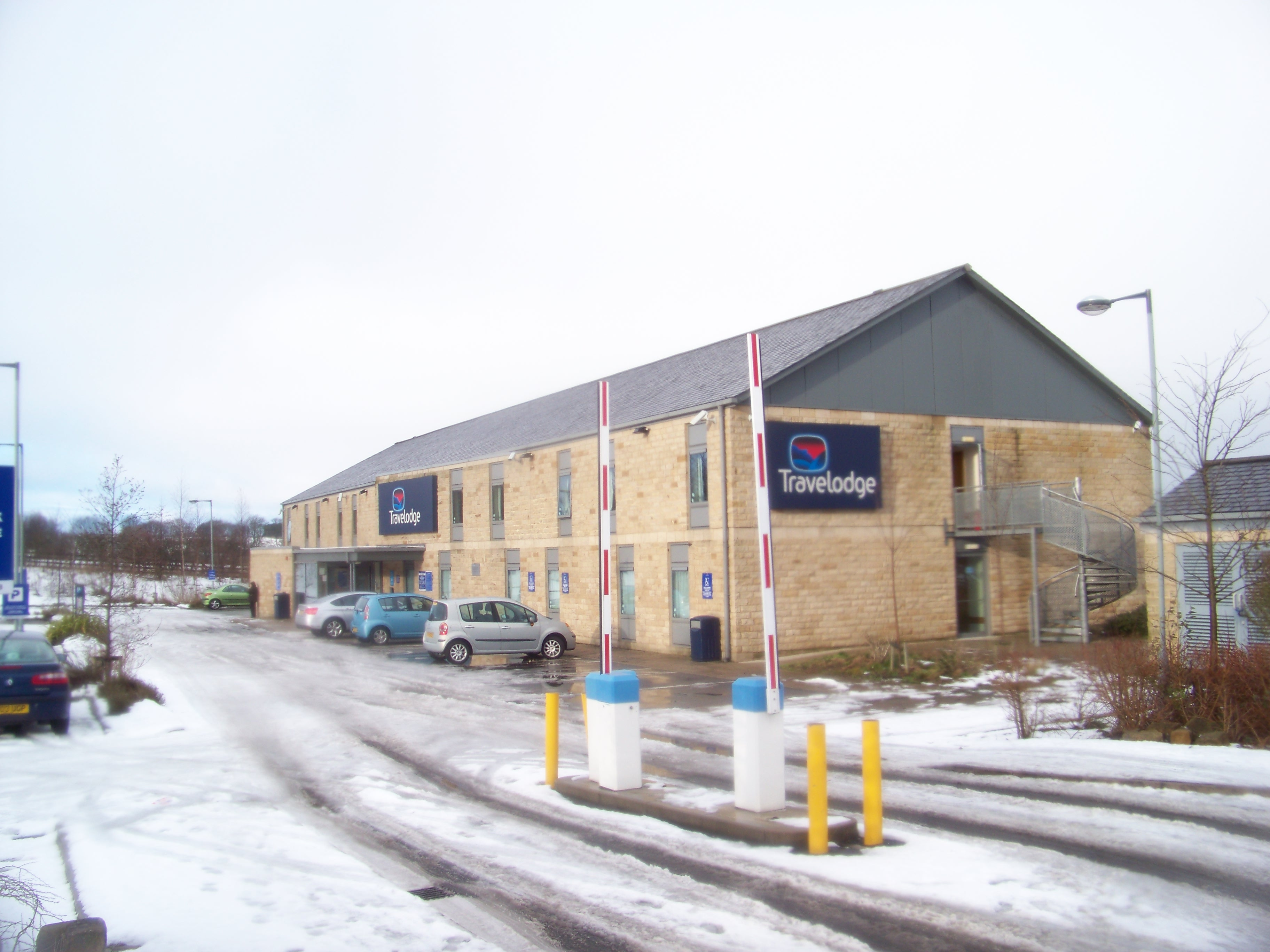 The travelodge at Leeds Bradford International Airport, Leeds, West Yorkshire. Taken on the morning of Sunday the 27th of December 2009.